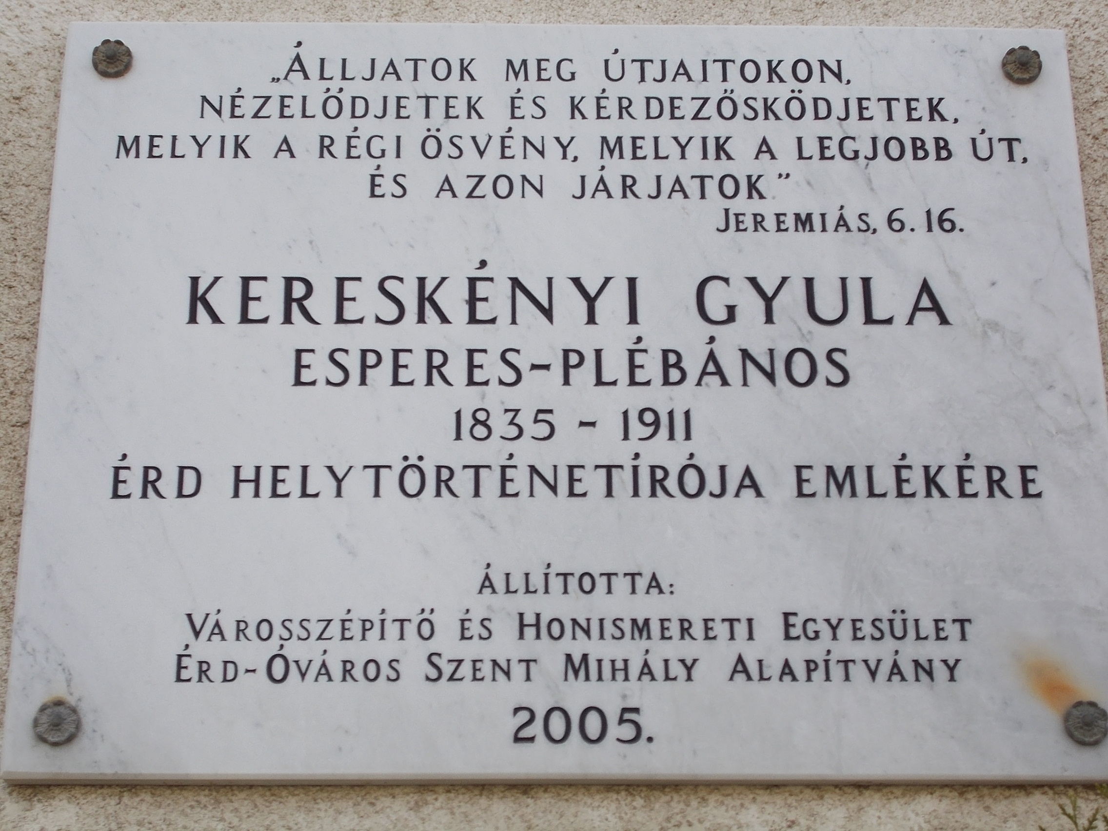 Plaque, Roman Catholic parish house. Listed ID 7015. Baroque. The ground floor was built between 1686-1695; with second floor expanded in 1774. - 6 Molnár Street, Ófalu, Érd, Pest County, Hungary.